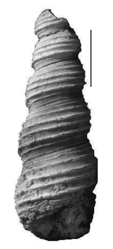 Black-and-white photo of an apertural view of holotype Palmerella kutchensis PG/K/Cr 8. Scale bar is 10 mm.